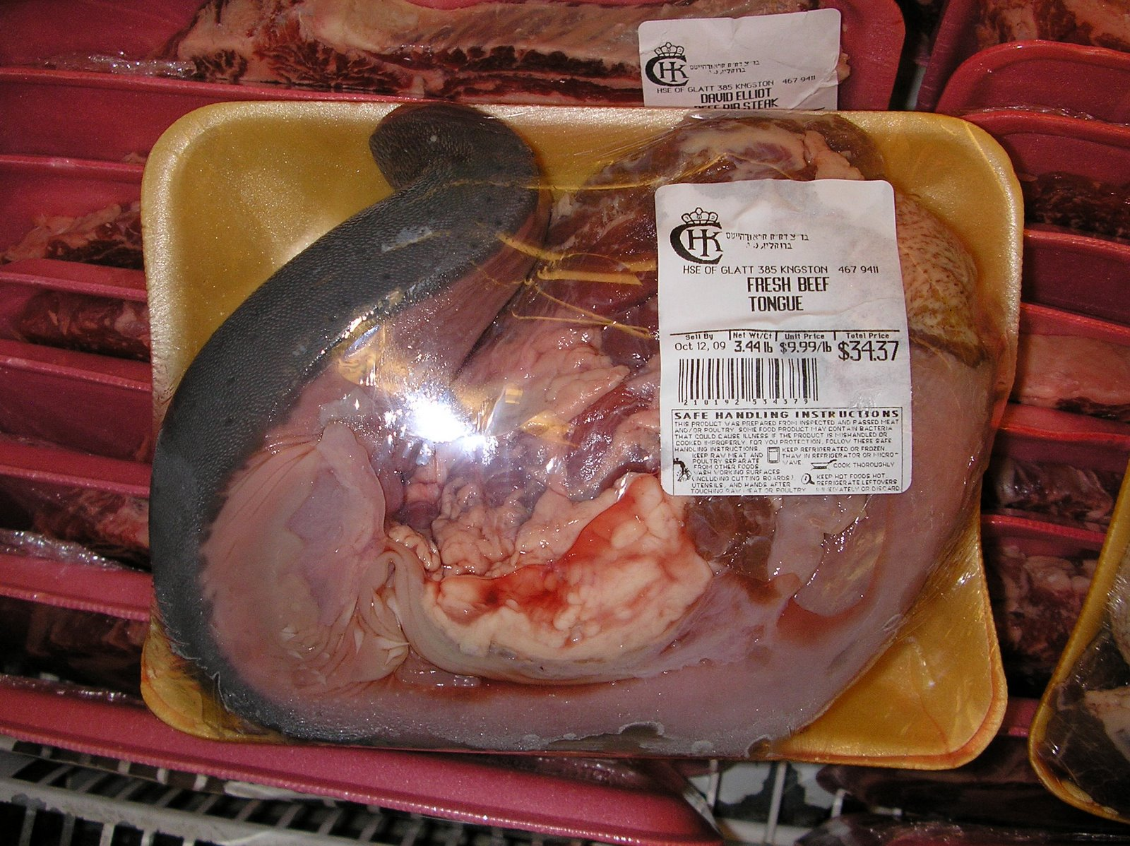 kosher slaughtered beef tounge in package